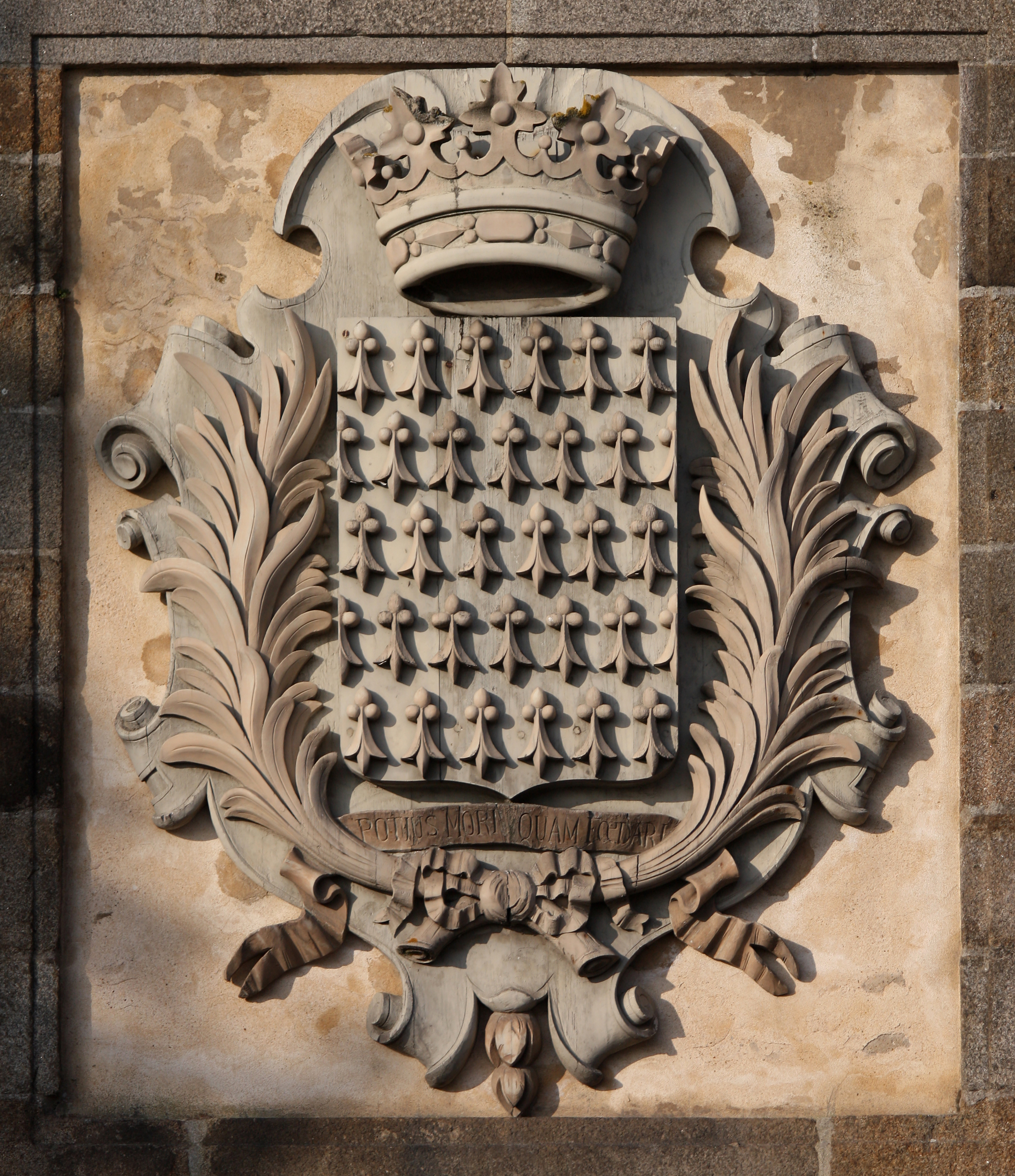 The coat of arms of Brittany, over the gates of the fortified city of Saint-Malo. One can read the latin motto of the country, Potius mori quam foedari (Rather death than stain).